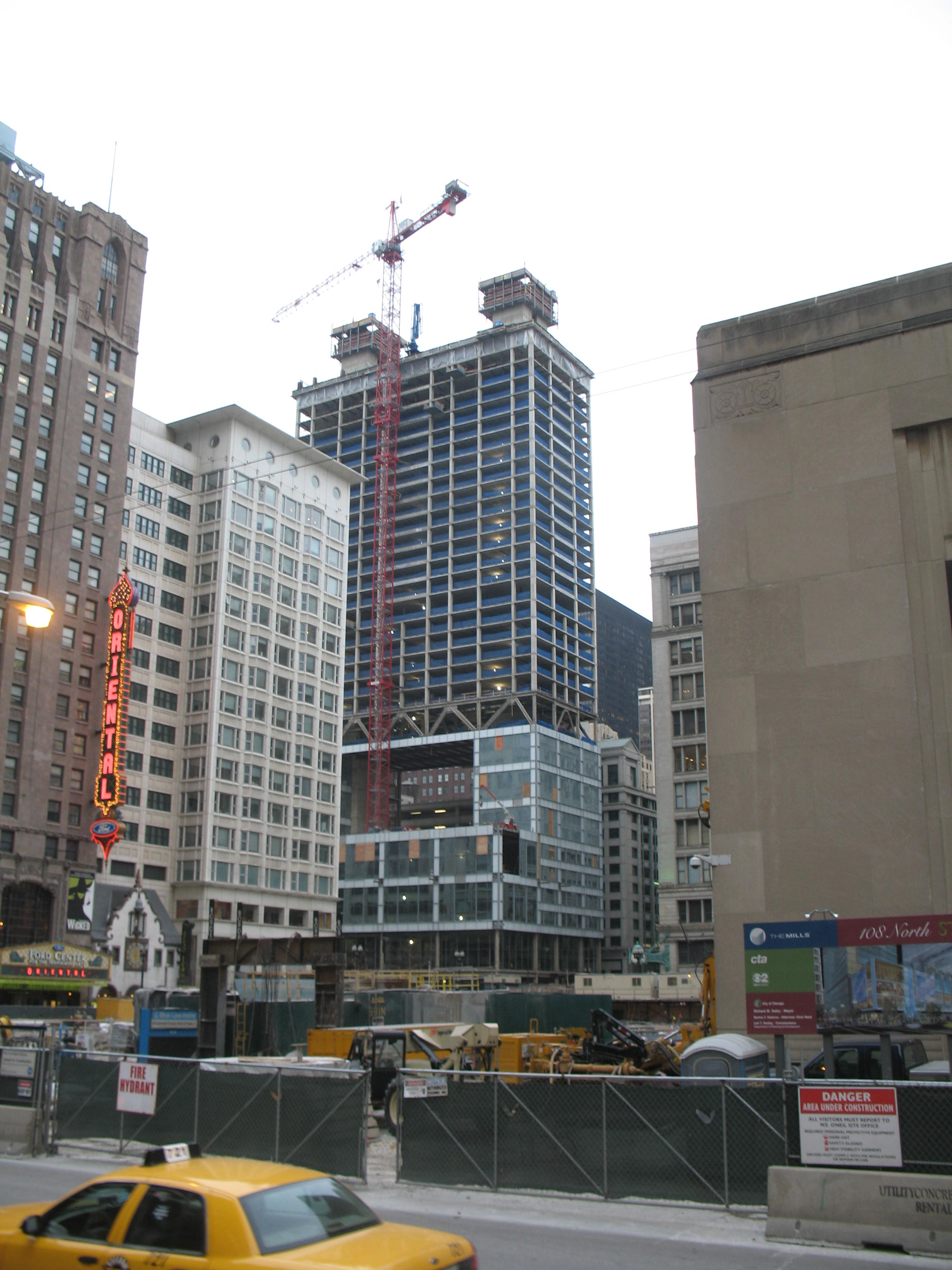 Joffrey Tower viewed over the 108 North State Street Construction Site from the Richard J. Daley Center Plaza.